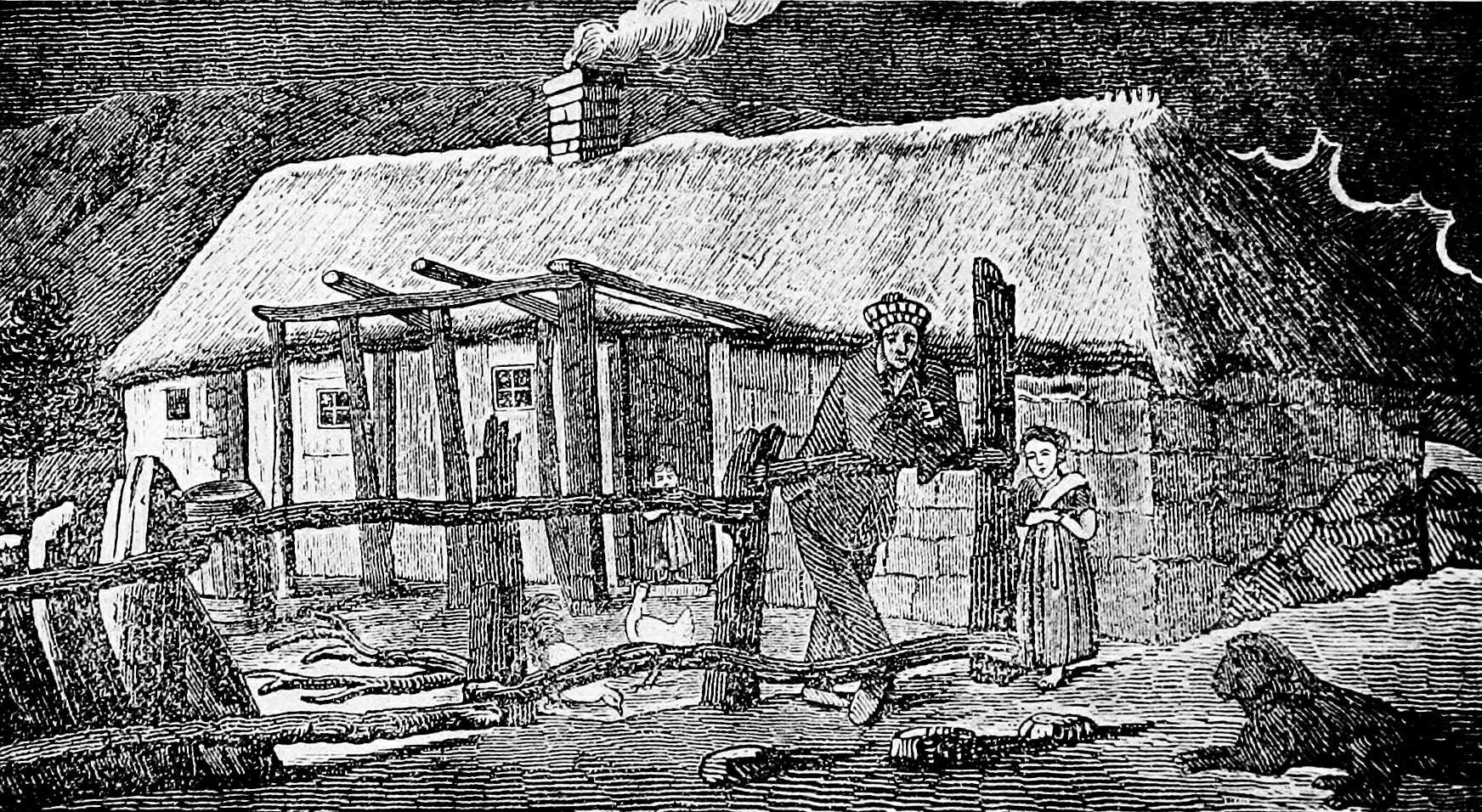 P 97--Illustration from the book Lonely ships and lonely seas by Ralph Paine. Illus by George Avison. Published by The Century co., New York, 1921. (First published as individual true sea-stories in Century magazine between 1920-21.) Governor Glass in front of his cottage See pages 98-106